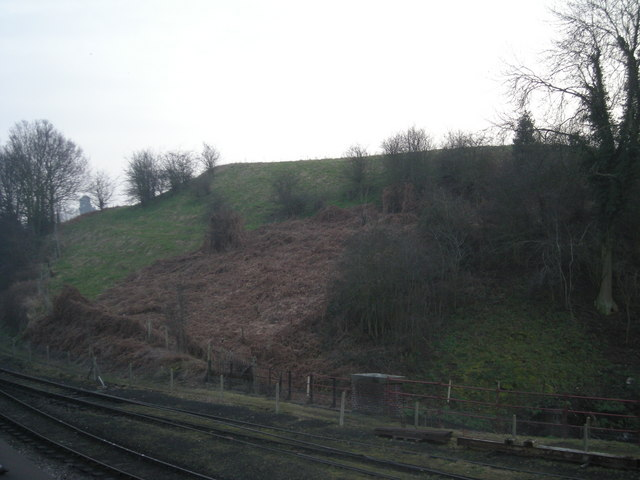 Panpudding Hill from the SVR Station Panpudding Hill is the site of the second castle of Bridgnorth. During the reign of Henry I the local Baron (whoever he was) traded insults & other things with the king from the first castle (the one Cromwell slighted near the present town). Needless to say, the Baron was defeated.